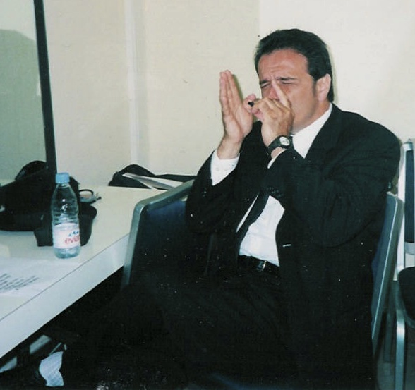 Rob in Monaco